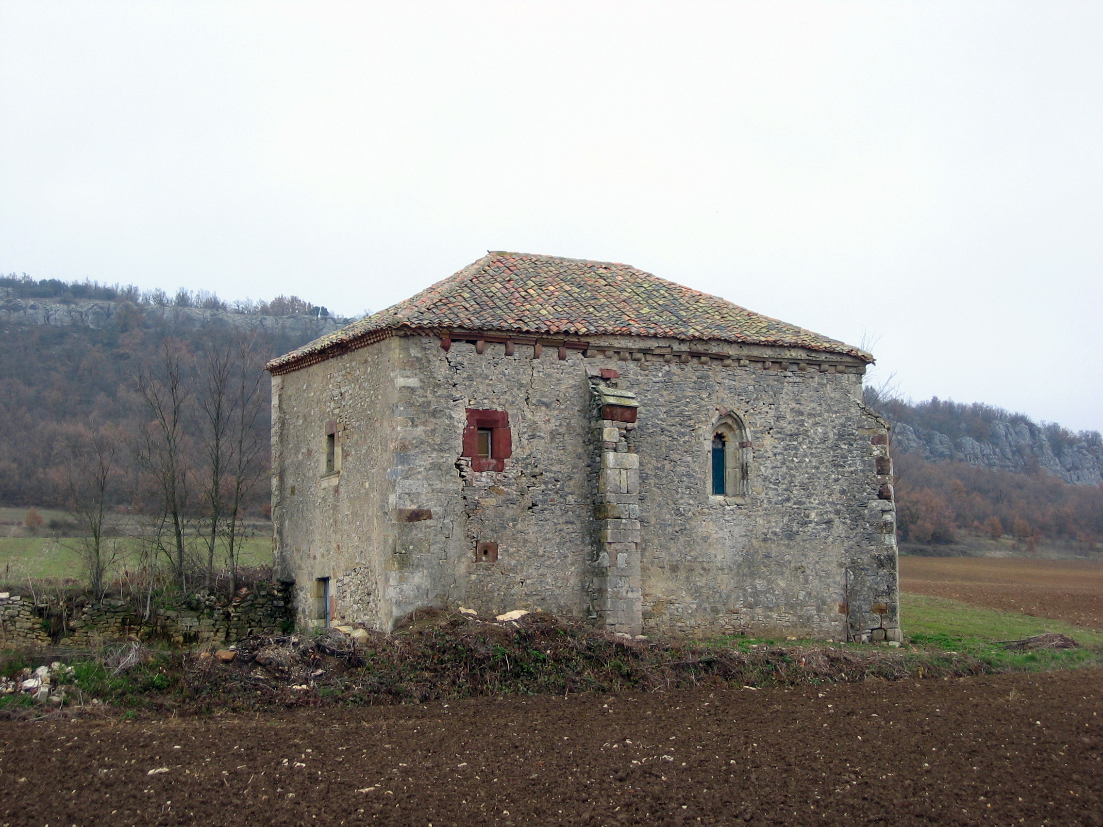 Exterior view of the shrine of Saint Lucia in La Rebolleda (Burgos, Spain). A single nave late-Romanesque Temple. Abroad presents buttresses and not decorated canecillos. As a decorative element uses the characteristic red sandstone in vain and doors can also be found in other nearby temples as Monastery of Santa Maria de Mave.